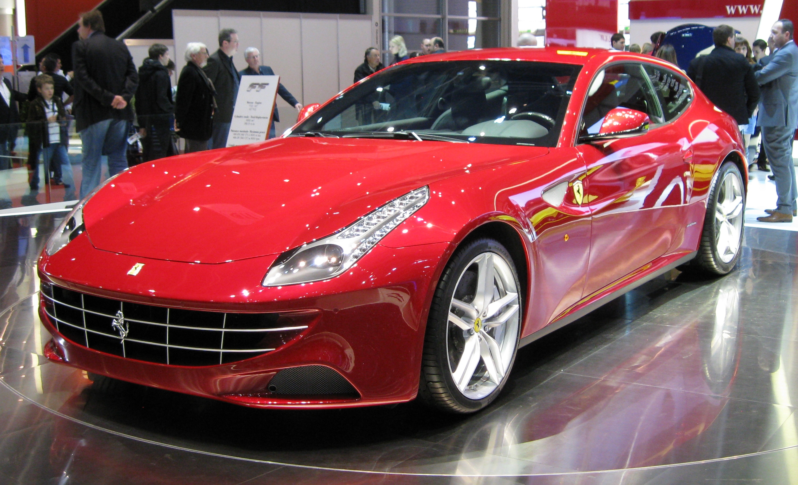 Geneva Motor Show 2011